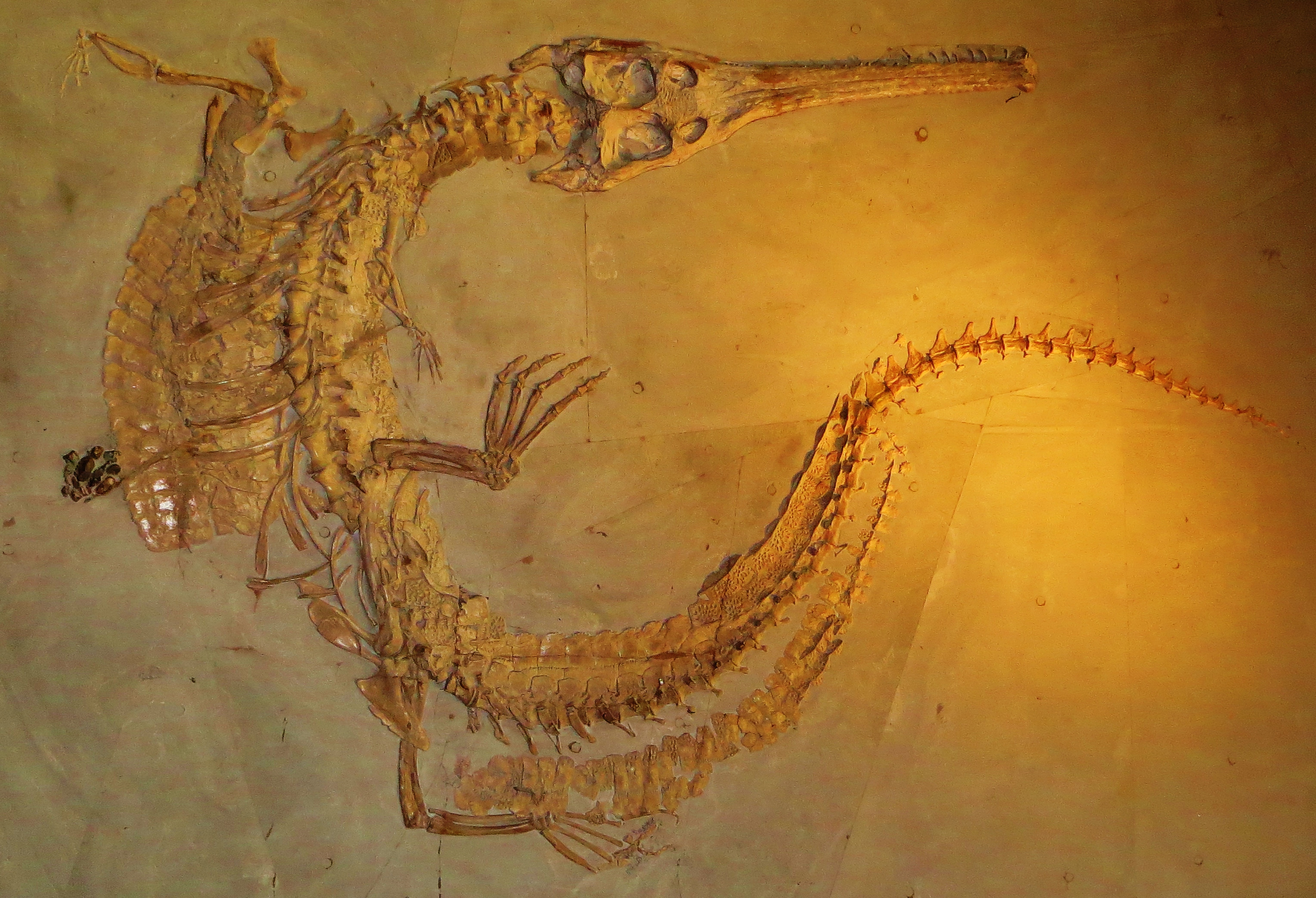 Fossil of Macrospondylus, an extinct reptile - Took the picture at Museum of Paleontology at Tuebingen